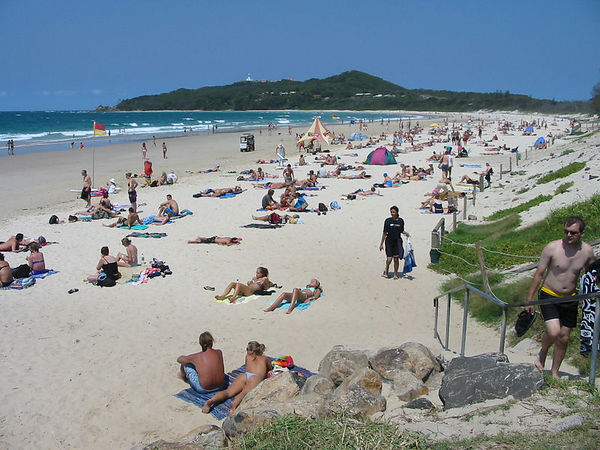 West end of Clarkes Beach, on the north shore of the town of Byron Bay (Australia), taken from close to the swimming pool and looking east towards Cape Byron.